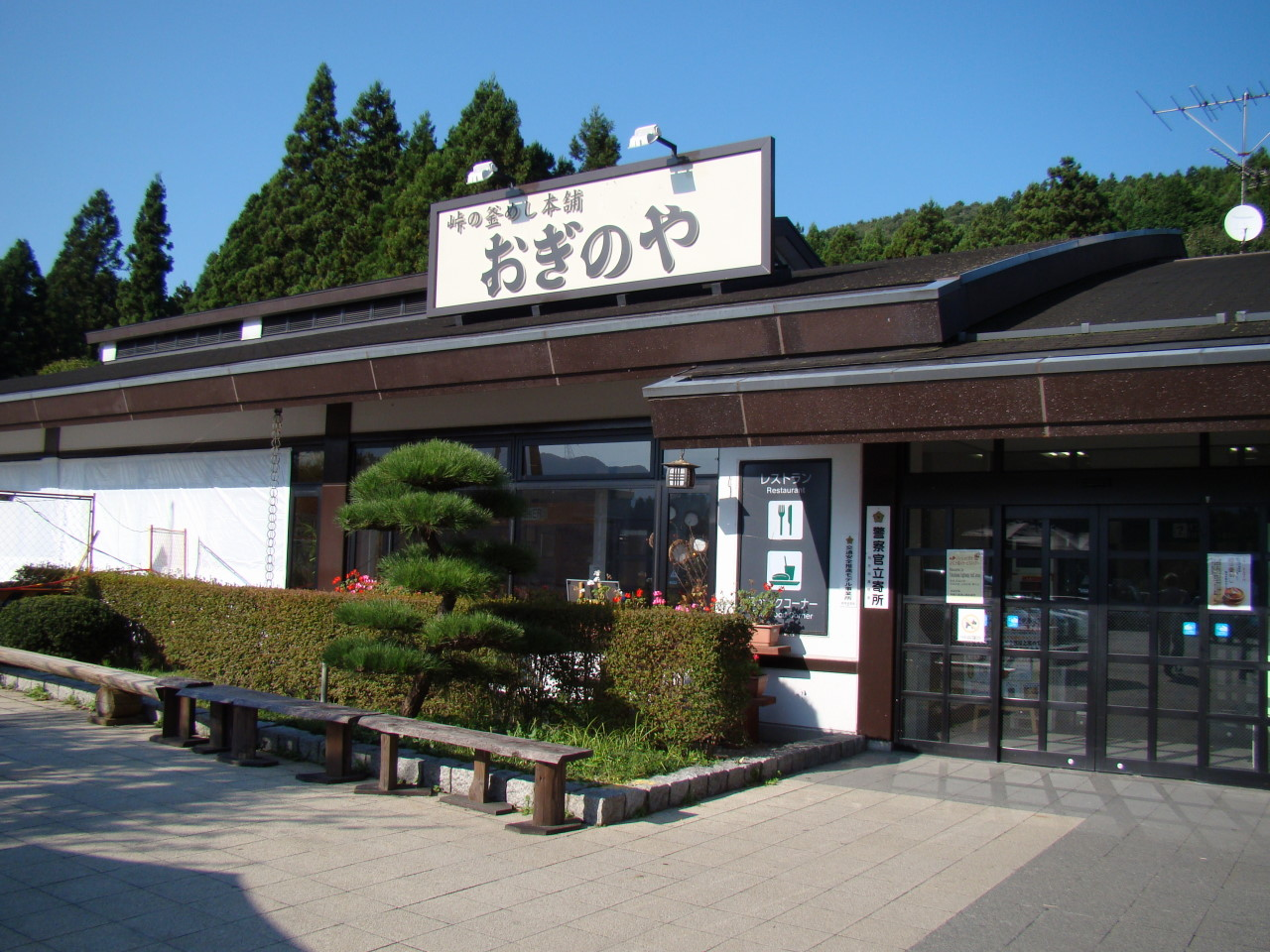 Joshin-etsu expressway Yokokawa service area Fujioka side Gunma Japan